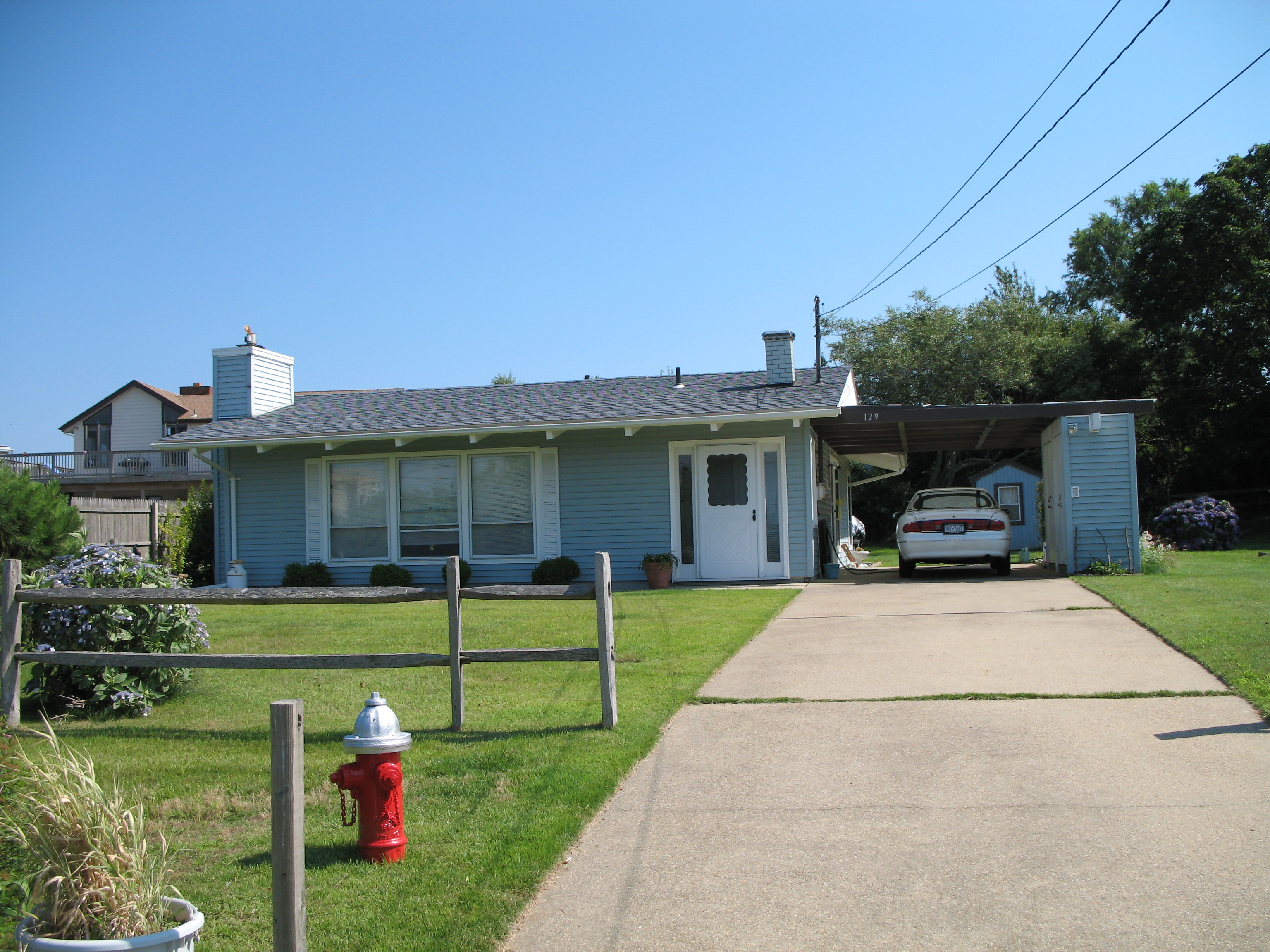 A Leisurama house at Culloden Point near Montauk, New York. The prefabricated houses were built on a slab and were intended as second homes. They included the car port and small out building. Photo was taken in July 2006 by poster.Category:Images of Long Island